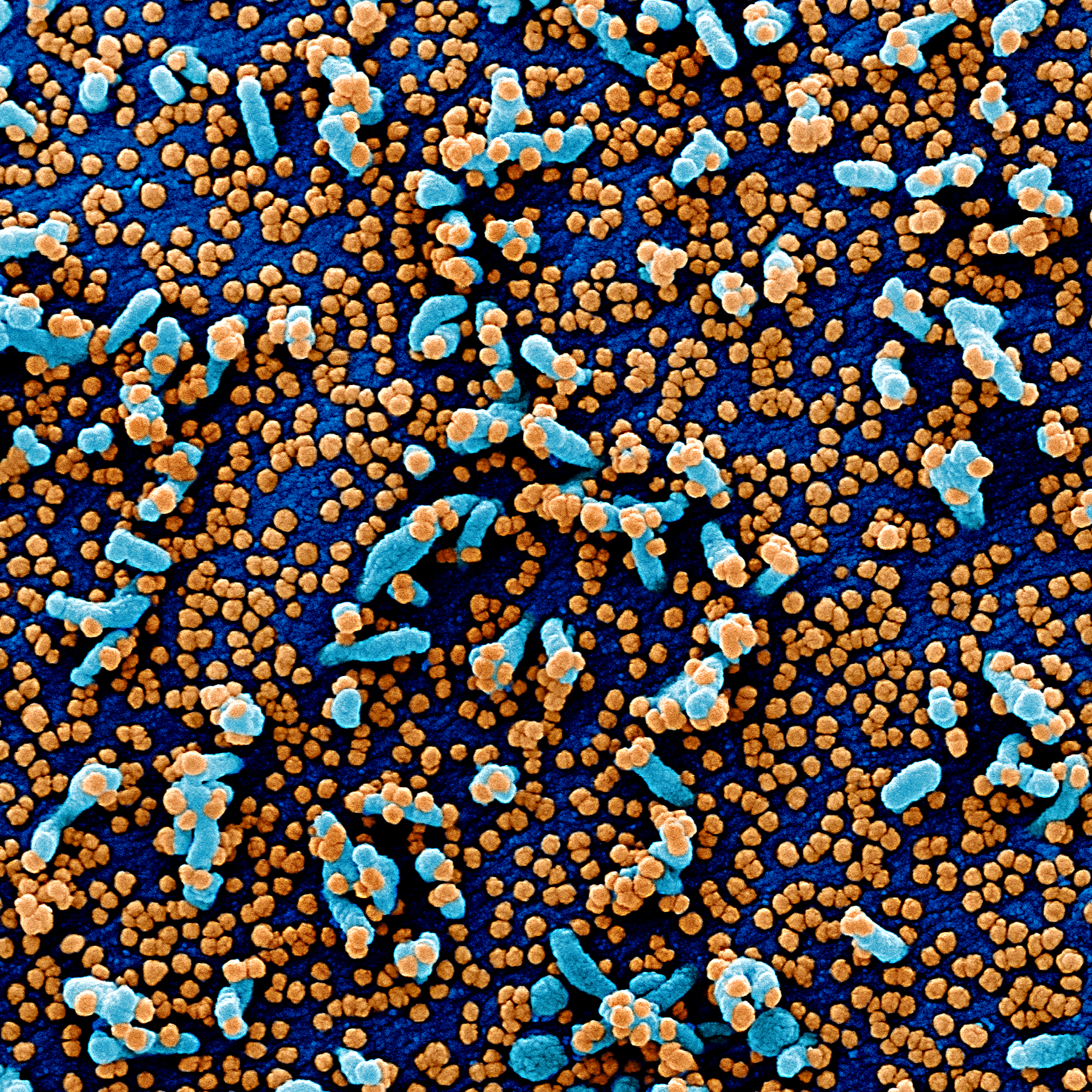 Colorized scanning electron micrograph of a VERO E6 cell (blue) heavily infected with SARS-COV-2 virus particles (orange), isolated from a patient sample. Image captured and color-enhanced at the NIAID Integrated Research Facility (IRF) in Fort Detrick, Maryland. Credit: NIAID